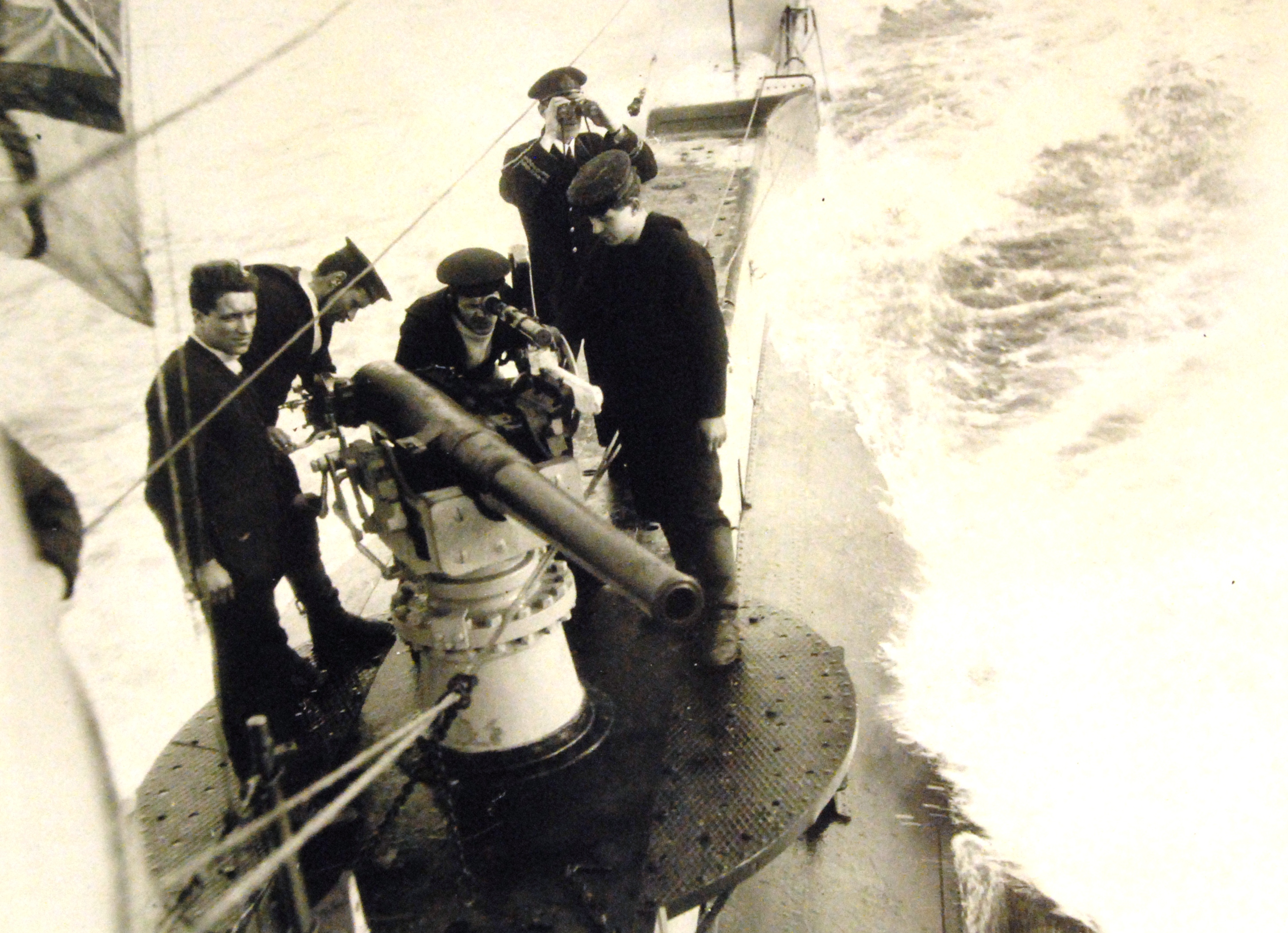 Lot 9608-4: On board a British submarine of the “E” class in the North Sea ready to fire the 12 powder gun, which was mounted abaft (to the rear) of the conning tower. Donation of C.H. Abbot, 1919. (7/24/2015).